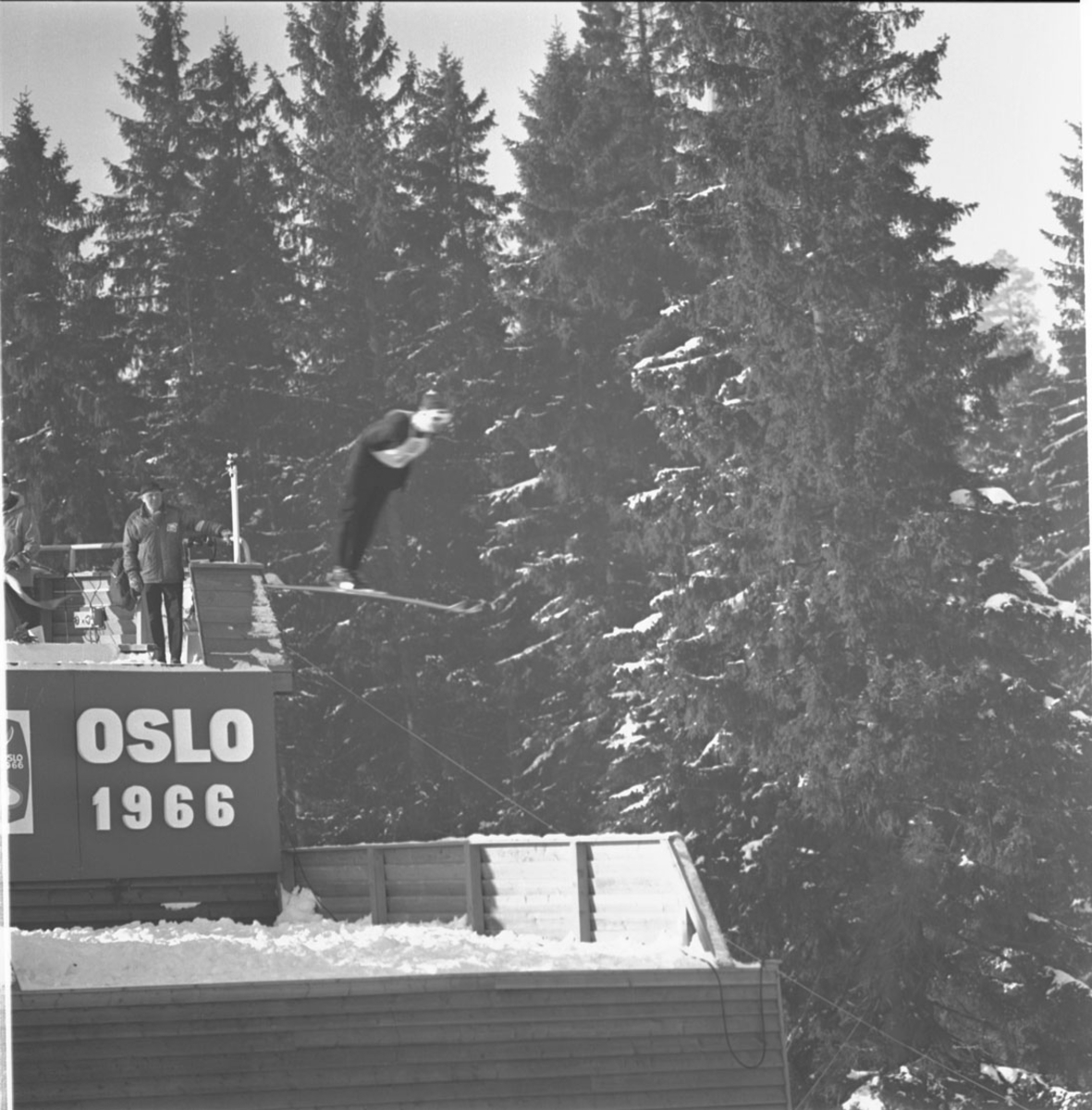 From the ski jumping in Midtstubakken, 1966 FIS Nordic World Ski Championships in Oslo.